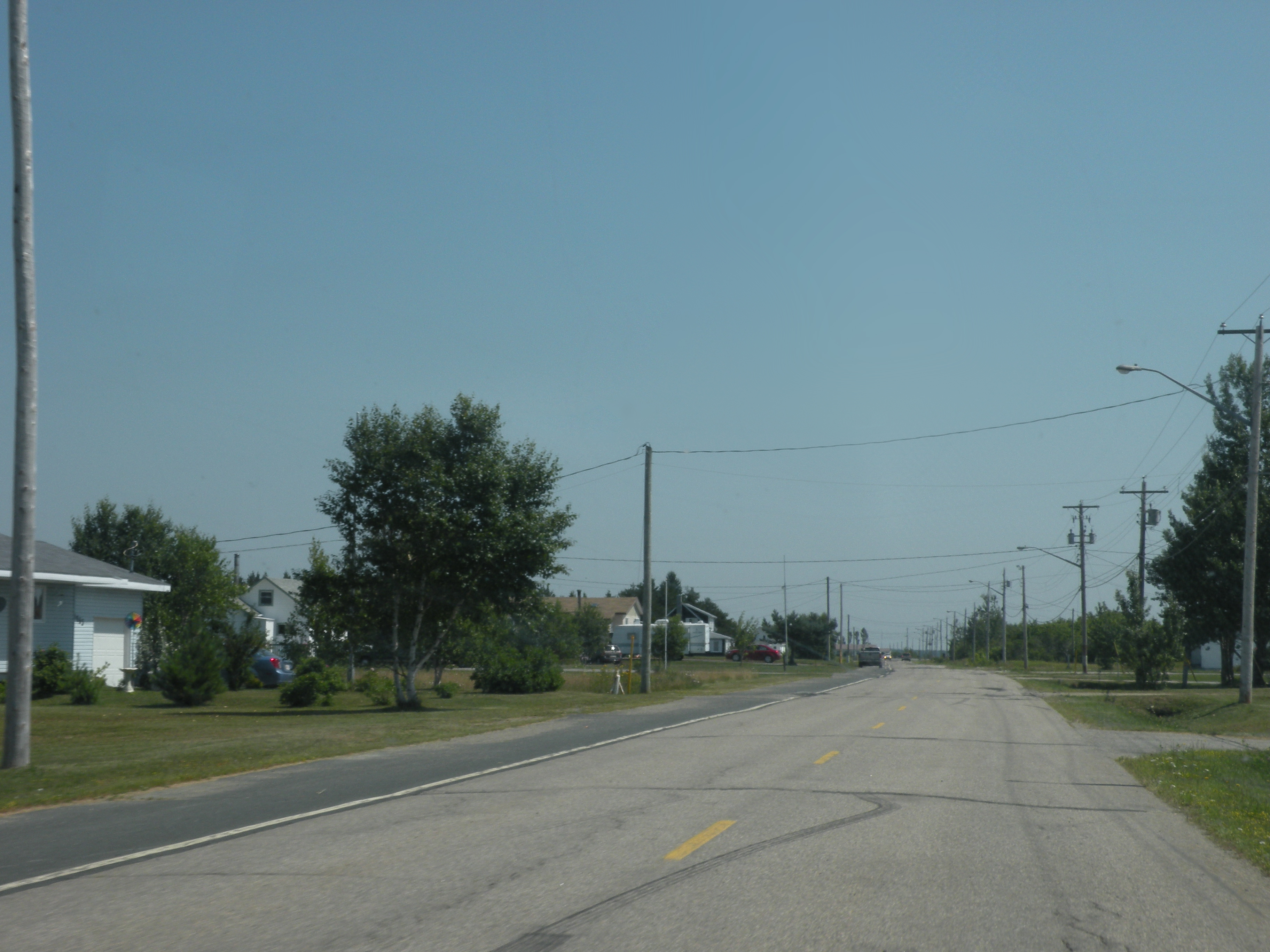 A view of Pokesudie, New Brunswick, Canada.